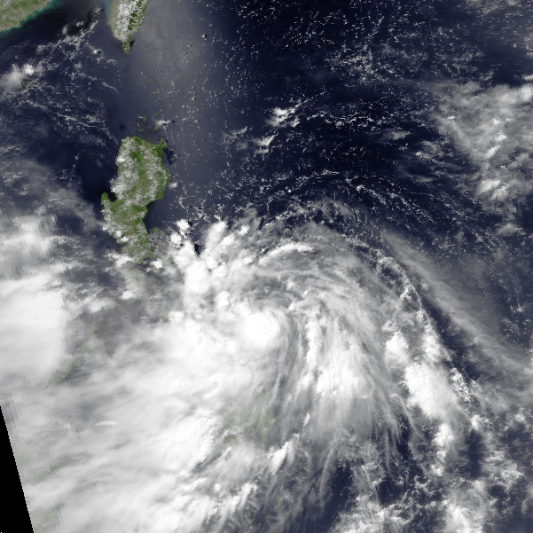 Tropical Storm Zeke on July 9, 1991